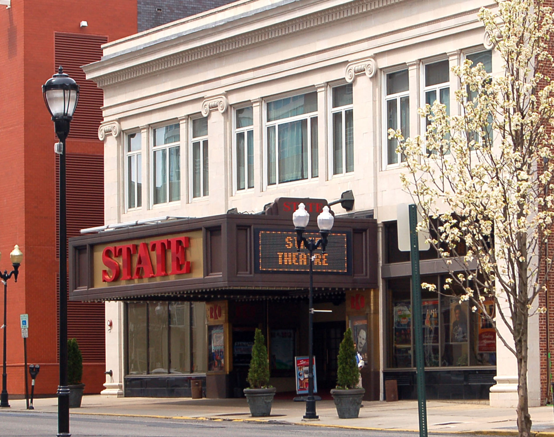 State Theatre New Brunswick, NJ (2008)